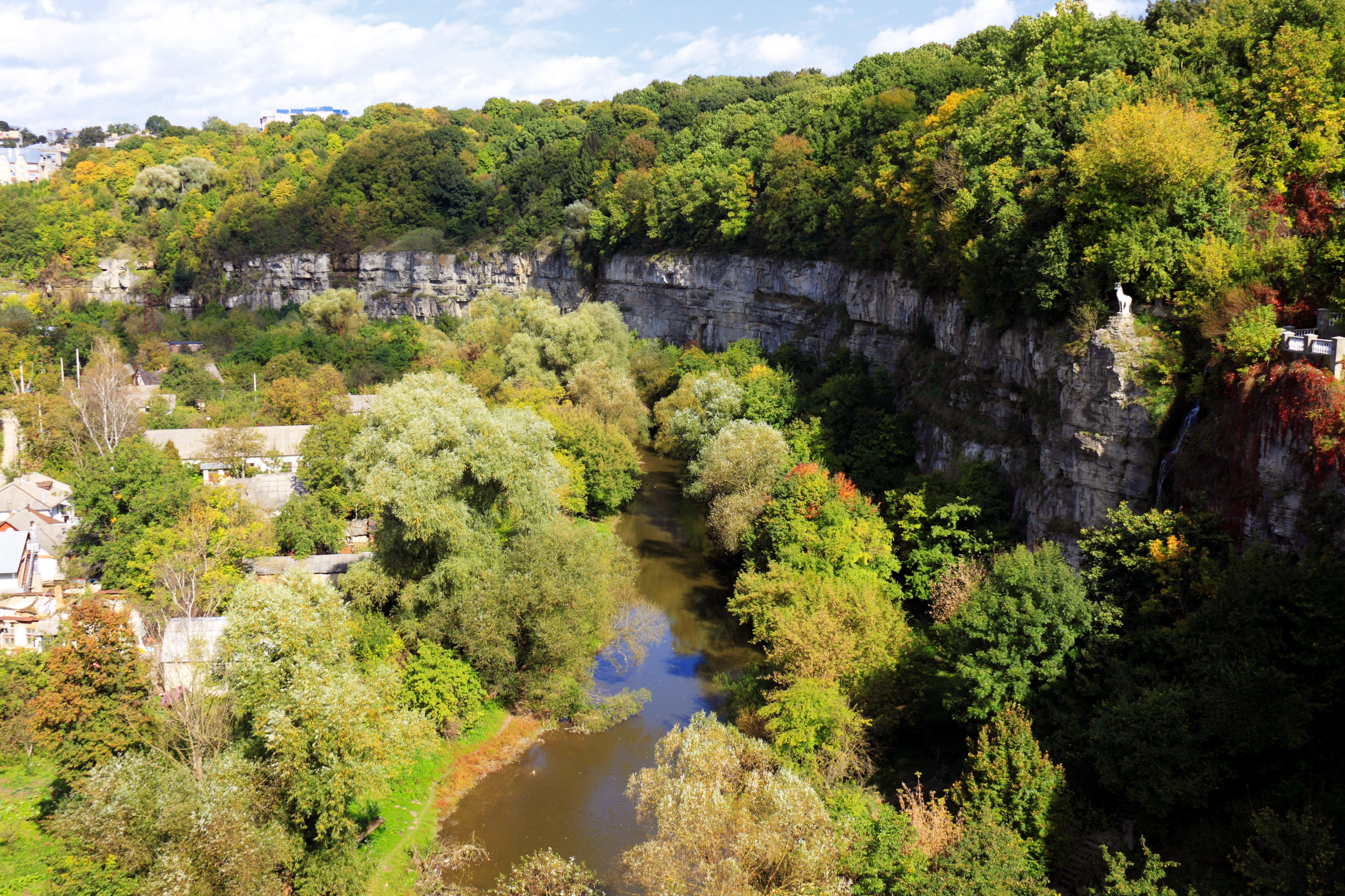 The canyon in the canyon of the Smotrych River in Kamianets-Podilskyi, Ukraine.